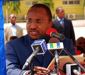 Tanzania Minister of Defence Honorable Hussien Mwinyi speaks during a ceremony